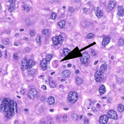 Section of mouse liver showing an apoptotic cell indicated by arrow